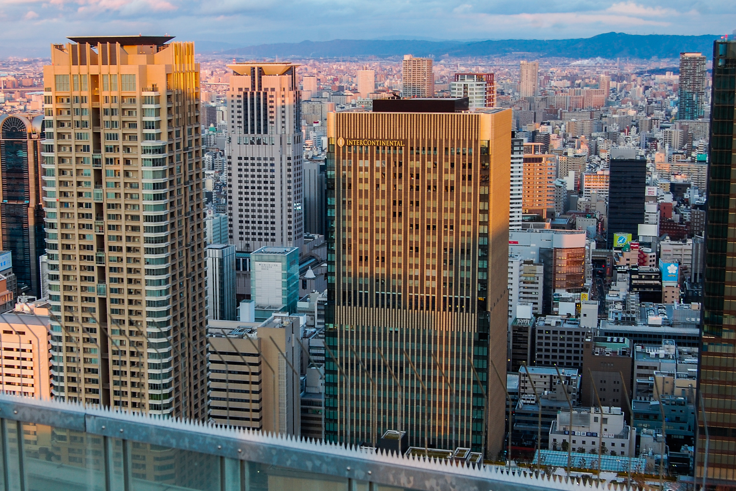 Chayamachi district of kita-ku